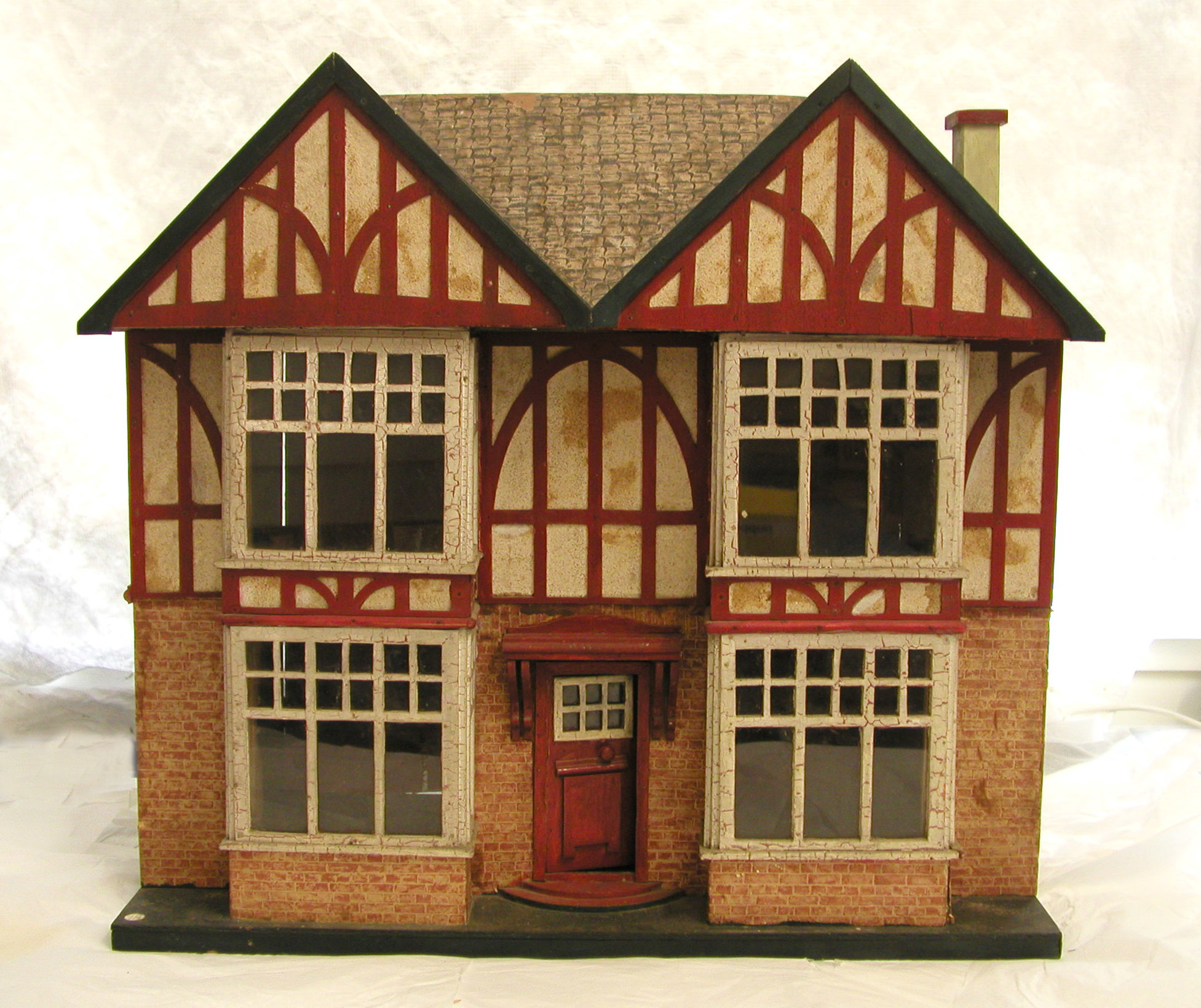 Tudor style doll's house, circa 1930s Similar doll's houses were being produced by Lines Bros Triang Toys from the 1930s to the mid-1950s. The Tudor style house was one of their more popular houses and was exported to Australia and New Zealand. This house with its papered brick work and roof tiles has similarities to the plainer doll's house style referred to as butter box doll's houses - lithographed paper representing red brickwork and roof tiles weere produced by companies such as Hobbies and Handicrafts Ltd of Great Britain, which also sold fretwork kits and fittings for dolls houses